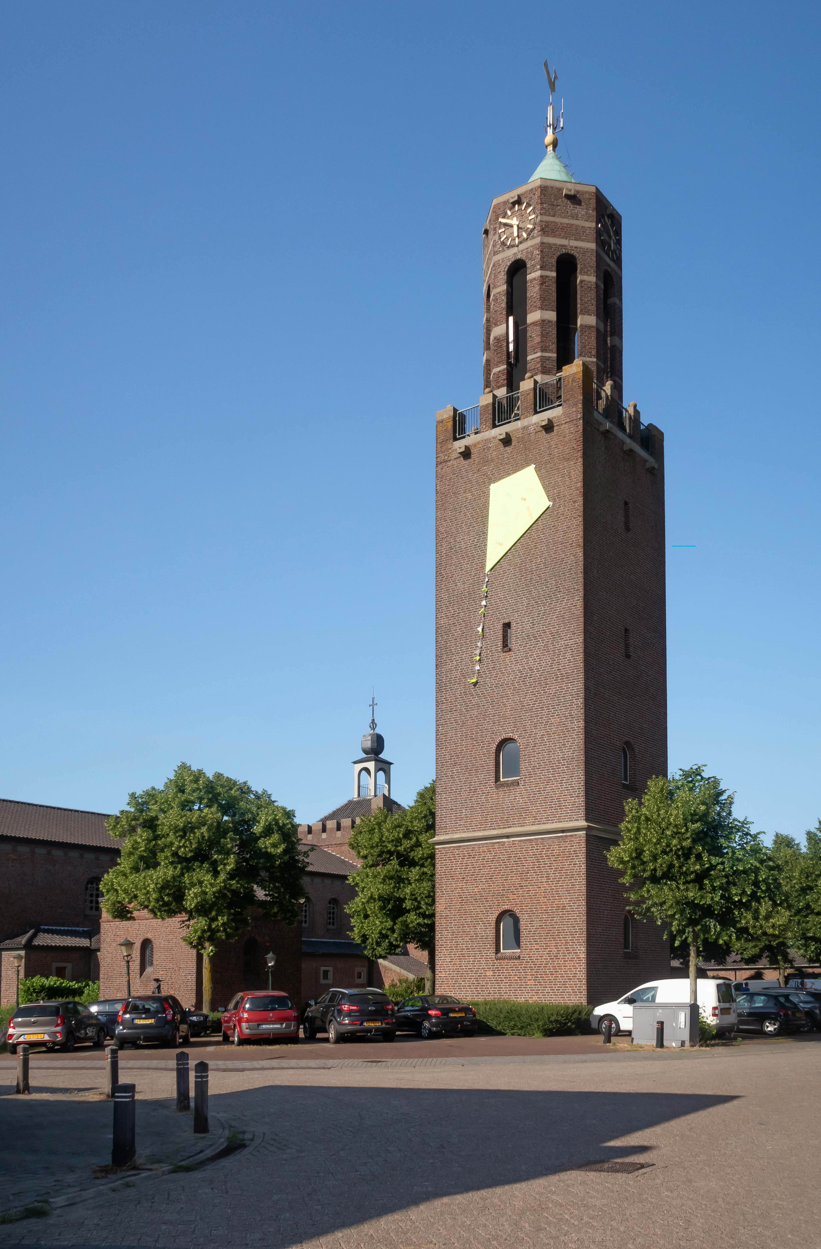 Kerkdriel, de protestantse kerk